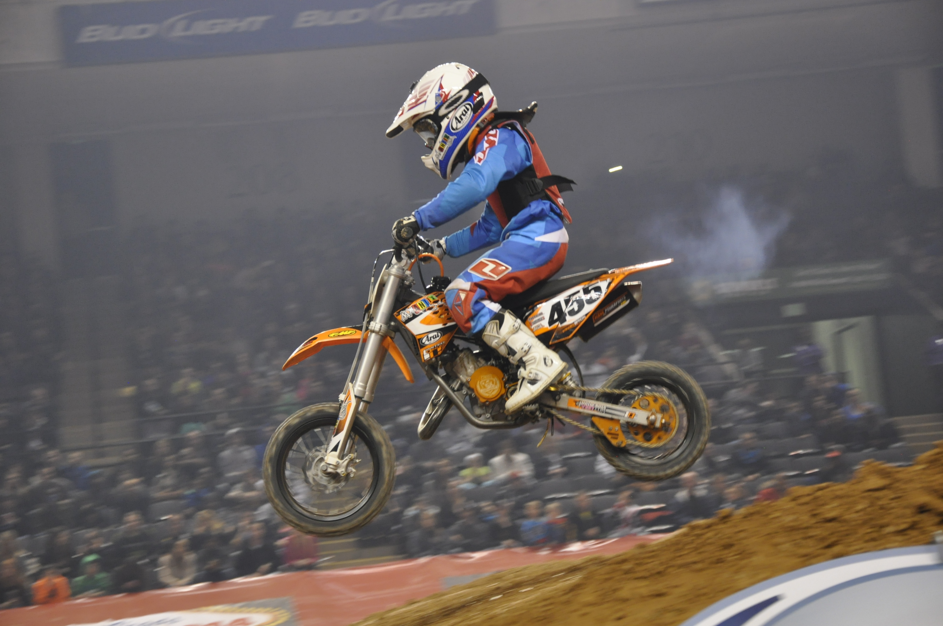 Eight year old Alexander "Xander" Brion, the son of Sgt. Maj. Anthony Brion who is an Operational Advisor for the U.S. Army Asymmetric Warfare Group stationed at Fort Meade, Md., catches "air" while competing during a motocross race in Baltimore Jan. 11. Xander, who has been racing motocross for three years, competed against 15 other children and took first place for his age category.